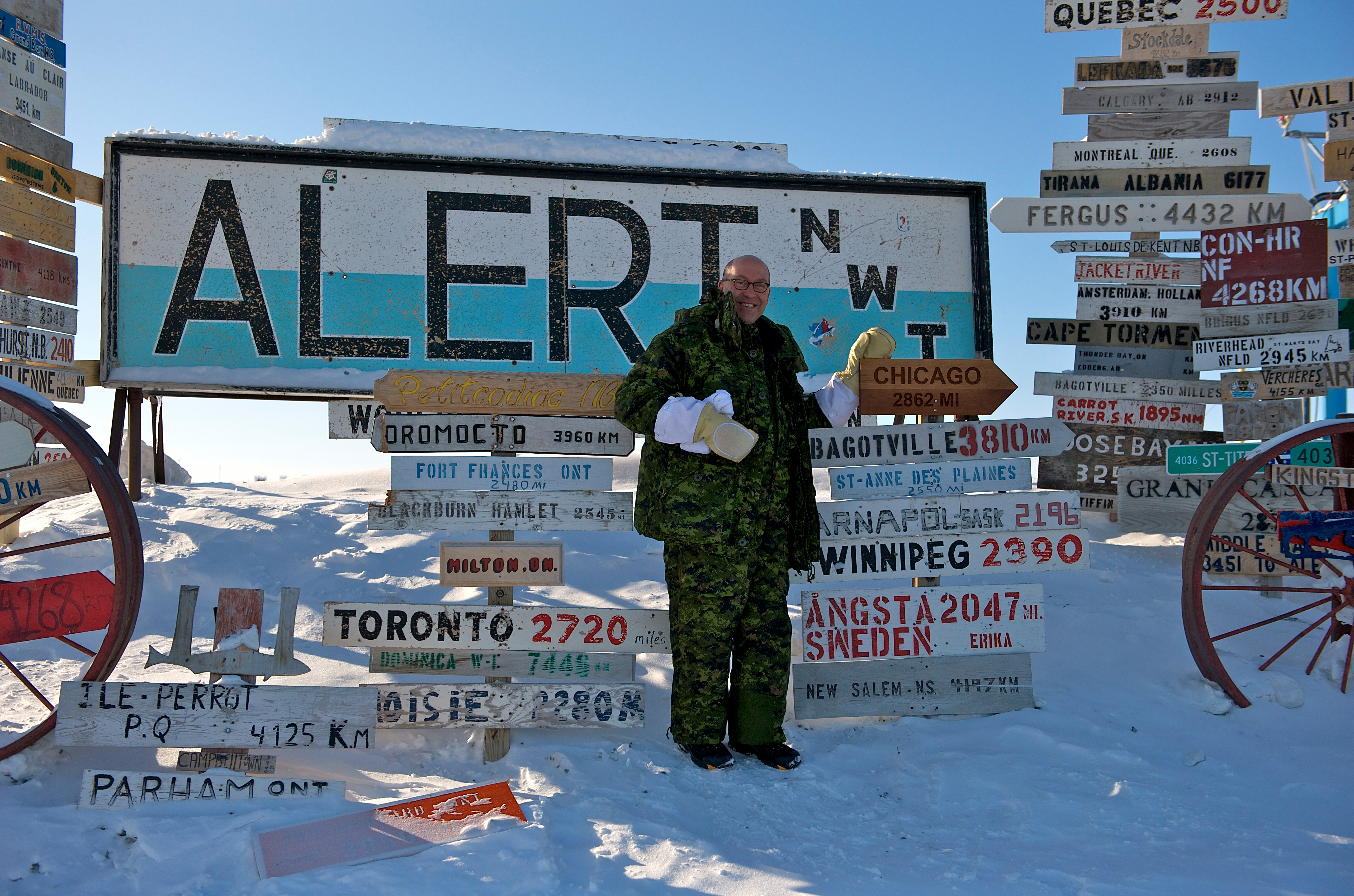 United States Ambassador Jacobson with newly installed Chicago road sign at Alert, Nunavut